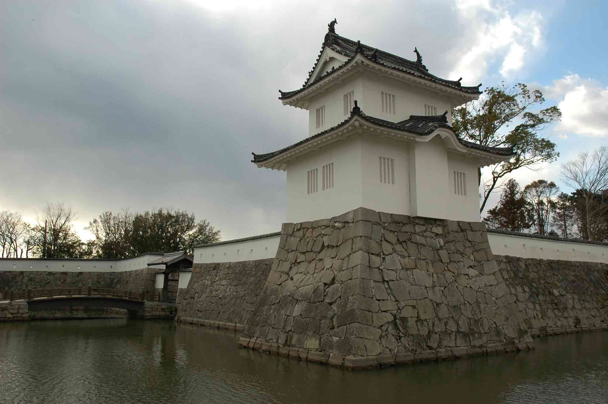 photo of Akō Castle Ohtesumi-yagura and Ohte-mon